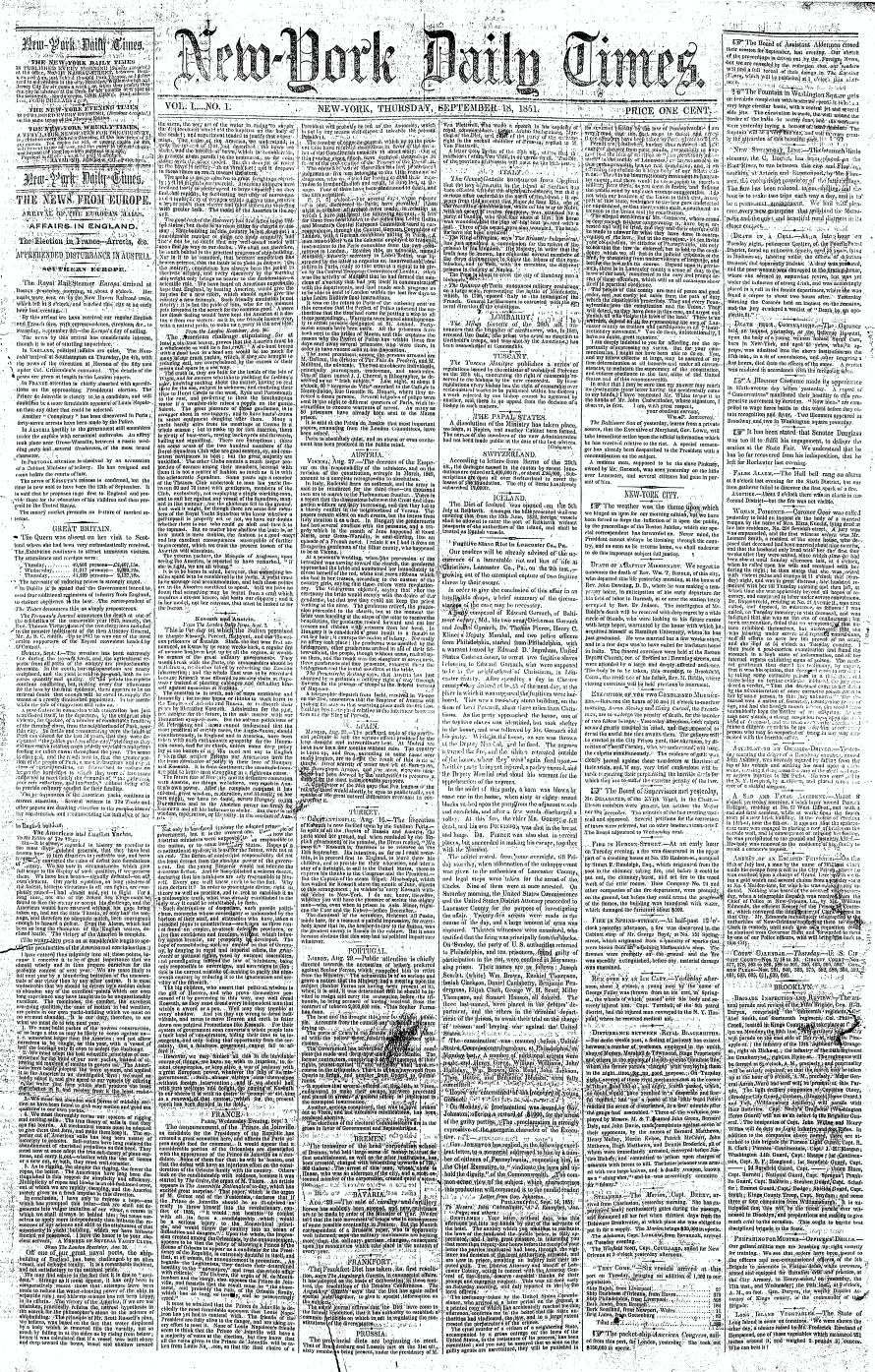 Front page of the first issue of The New York Times as The New-York Daily Times.